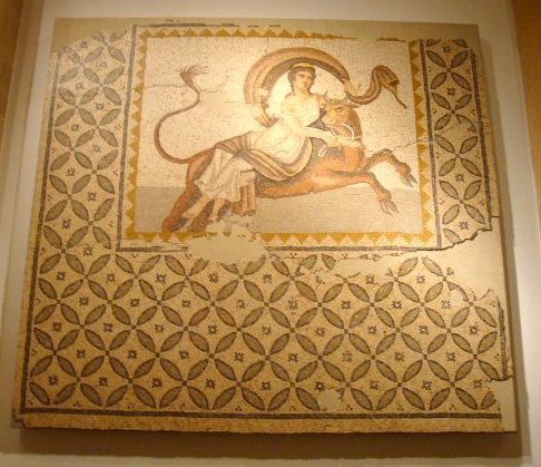 Europa - Beirut National Museum